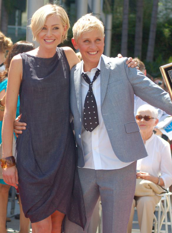 Portia de Rossi and Ellen DeGeneres at a ceremony for DeGeneres to receive a star on the Hollywood Walk of Fame.